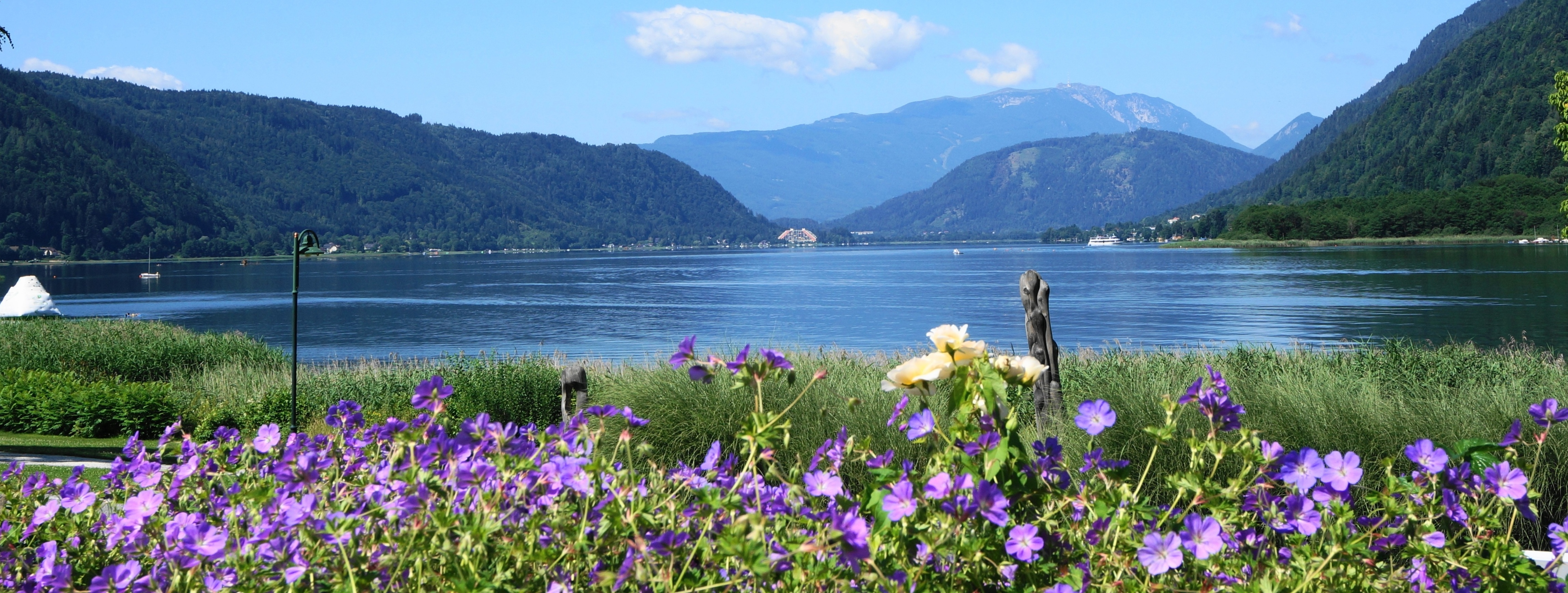 Lake Ossiachersee, Austria. View to Villach, Carinthia to the mountains Oswaldiberg (963 metres above sea level) and Dobratsch (2166 m), Carinthia, Austria, EU